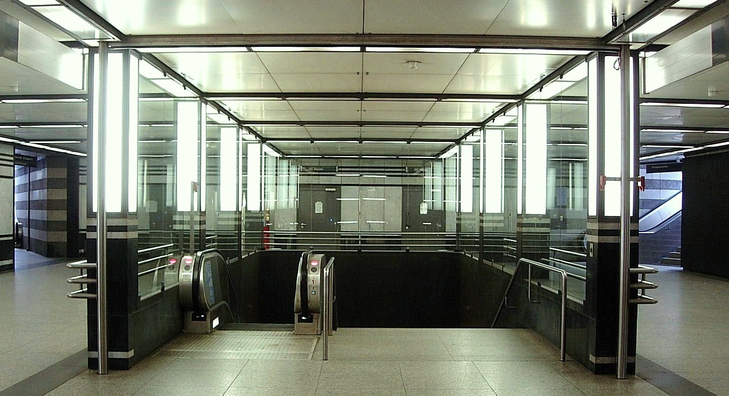 Subway station (line 4) in Munich - view to the elavators